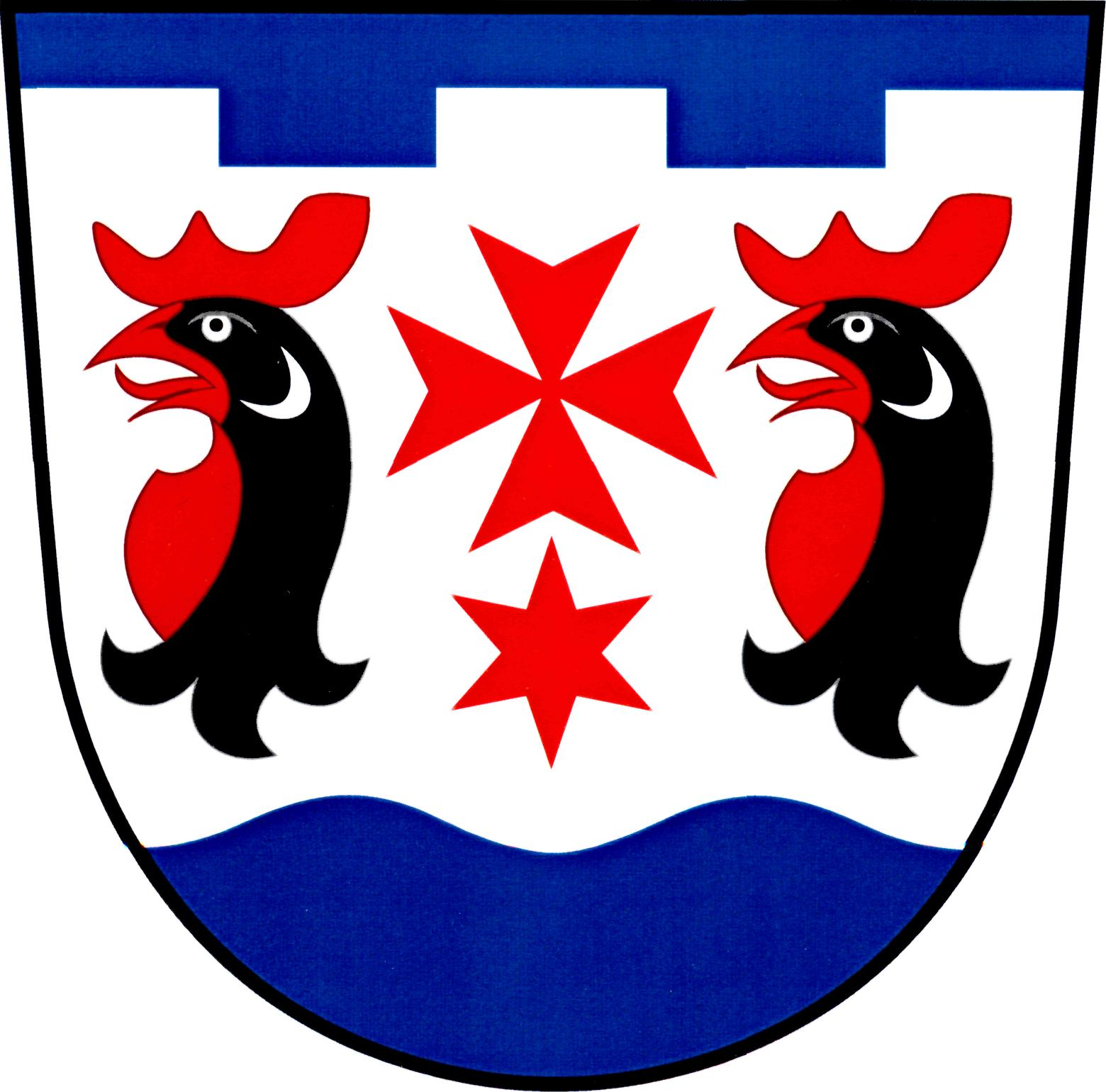 Coat of amrs of Předboj , District Prague East, Czech Republic